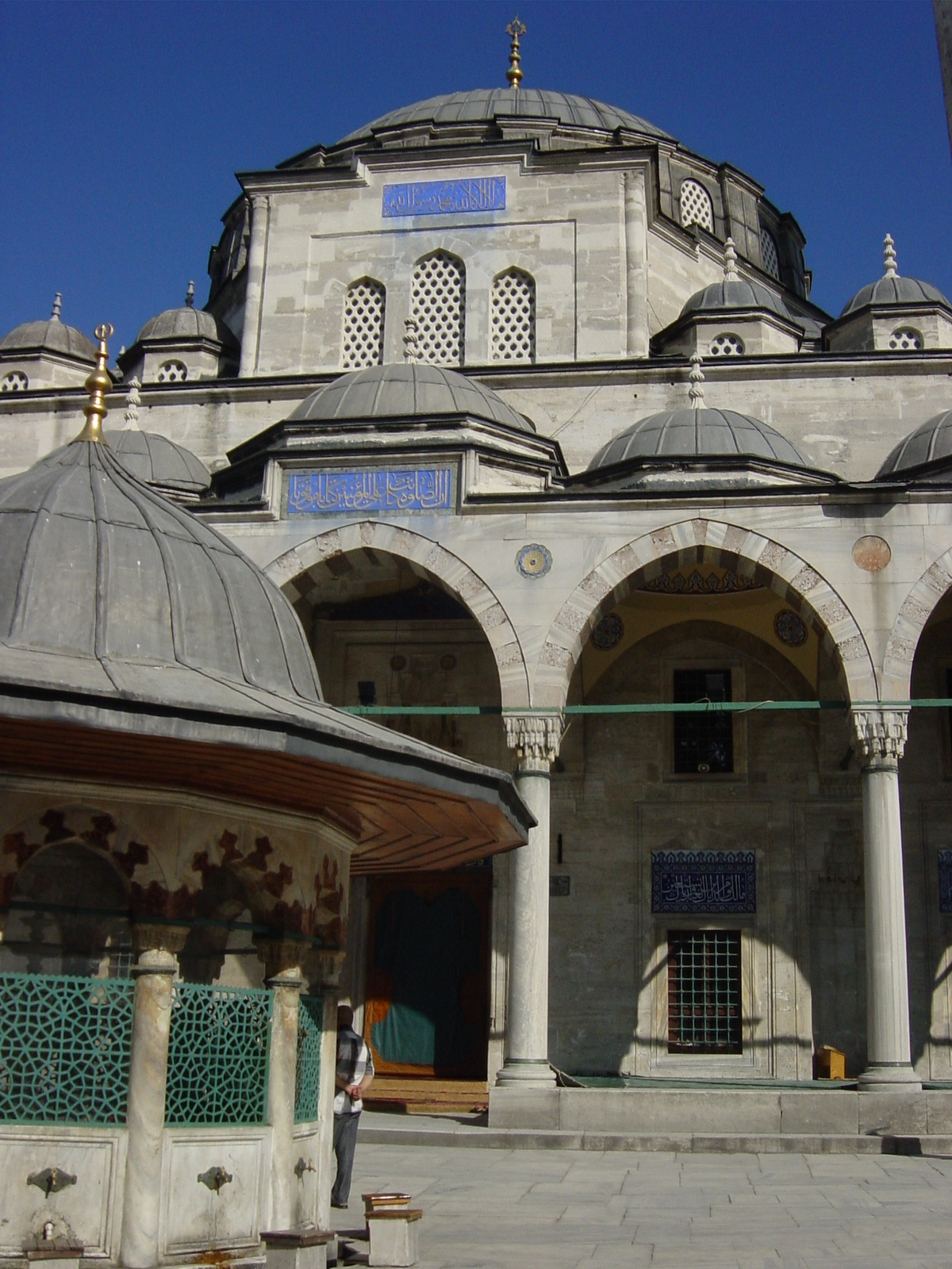 The tiny but very elegant mosque called "Mehmut Pasha Camii" at Istanbul. Picture by: Giovanni Dall'Orto, May 25 2006.